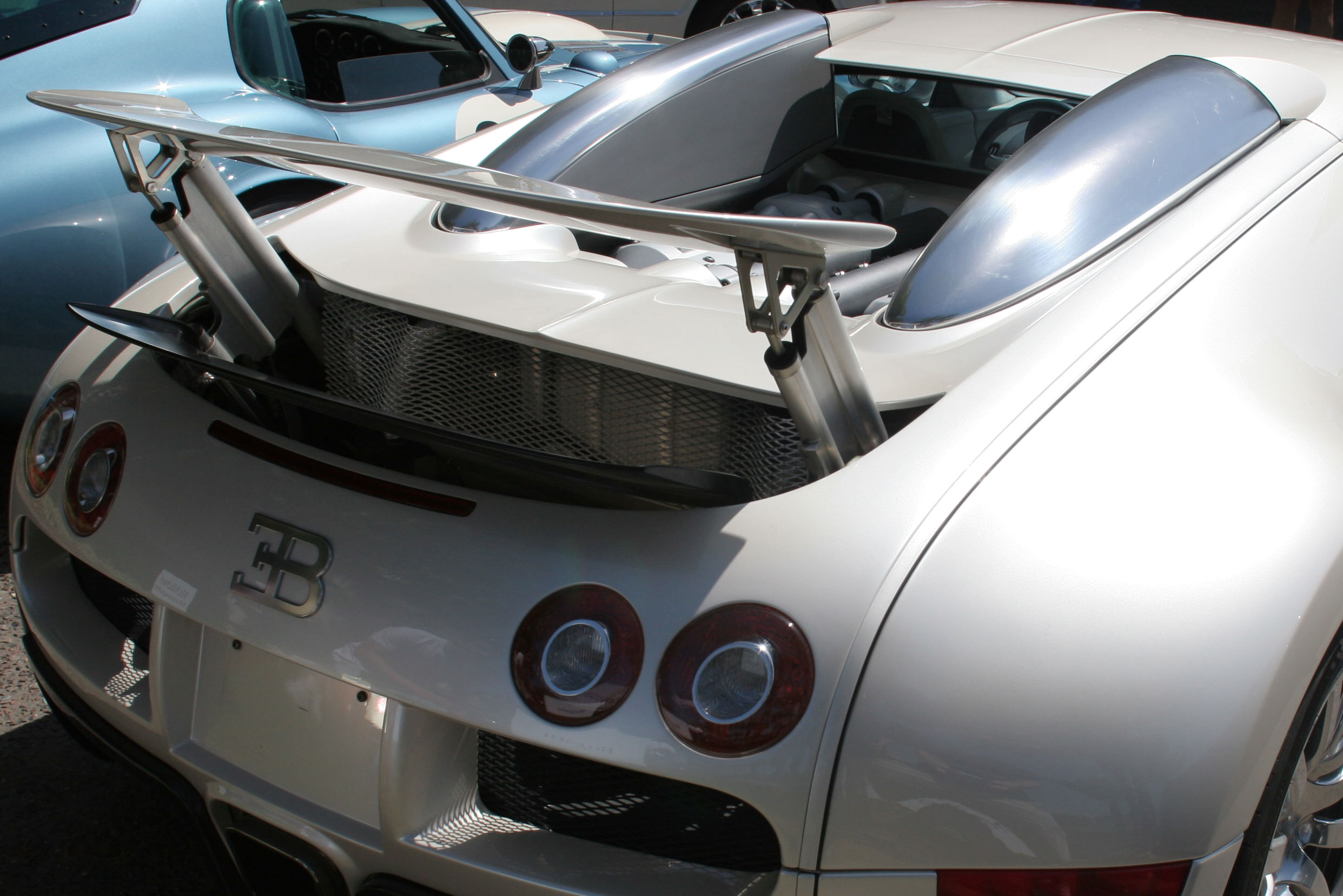 Bugatti Veyron hydraulic spoiler. Photograph: Trevor P. Hirst